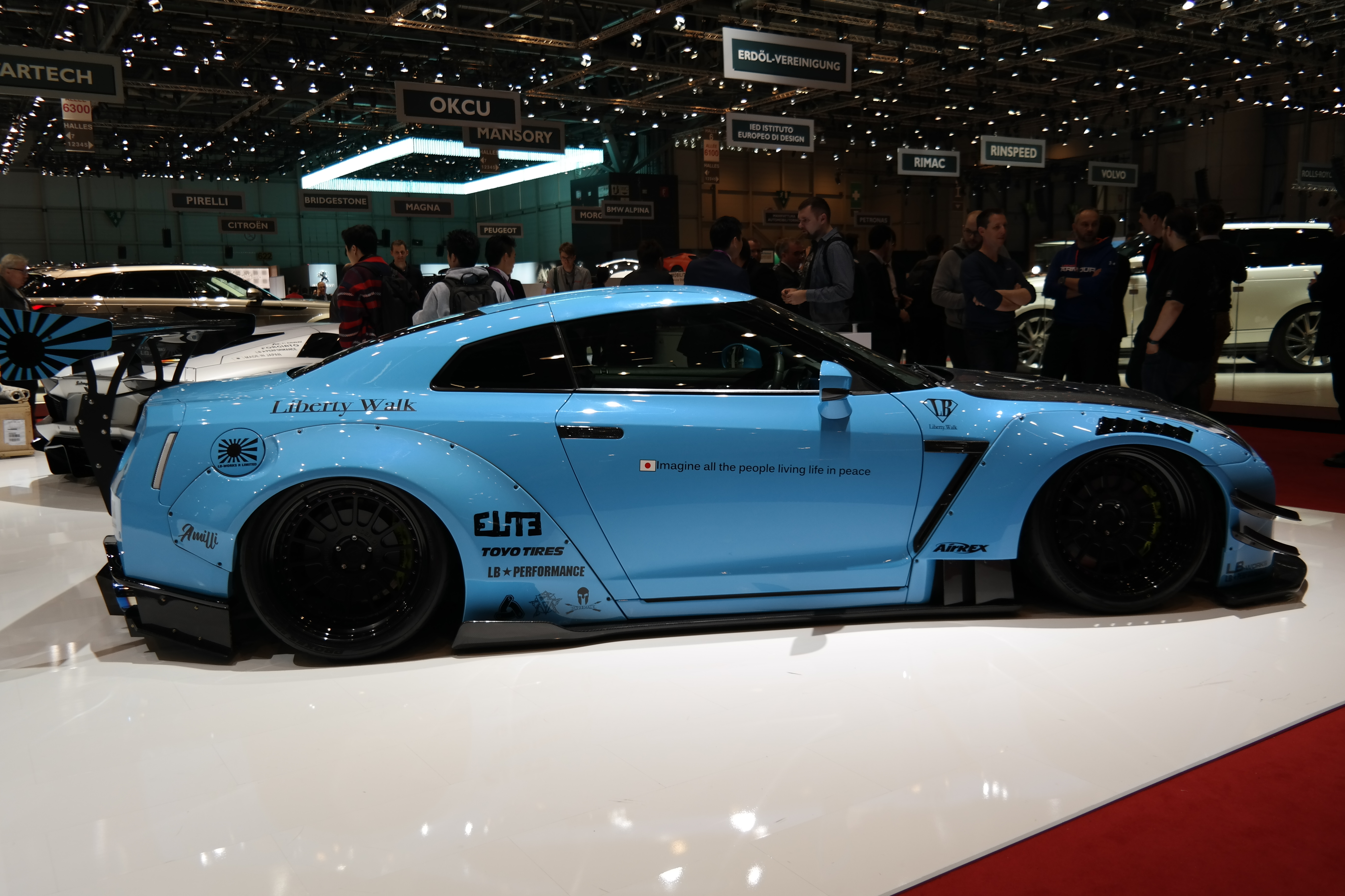 Liberty Walk Nissan GTR, Geneva Motor Show 2018 (photo taken on the first press day)